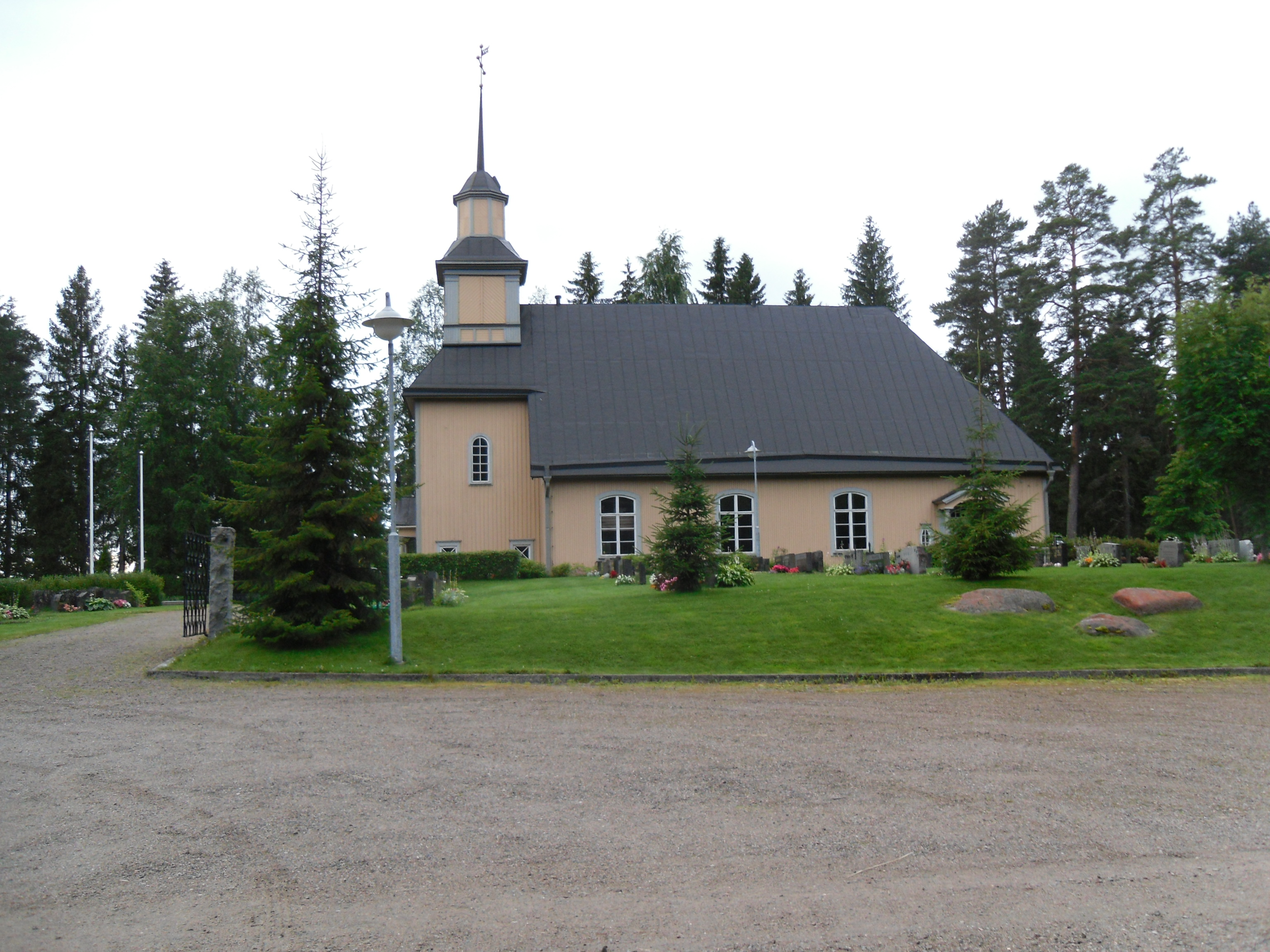 Murole church in Ruovesi, Finland